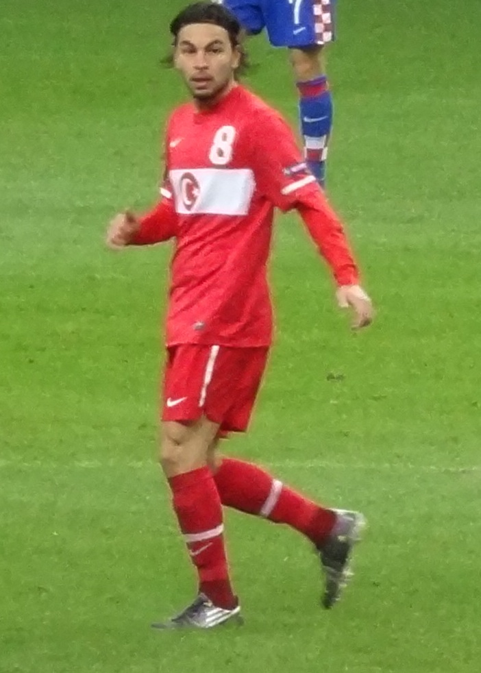 selçuk playing for turkey